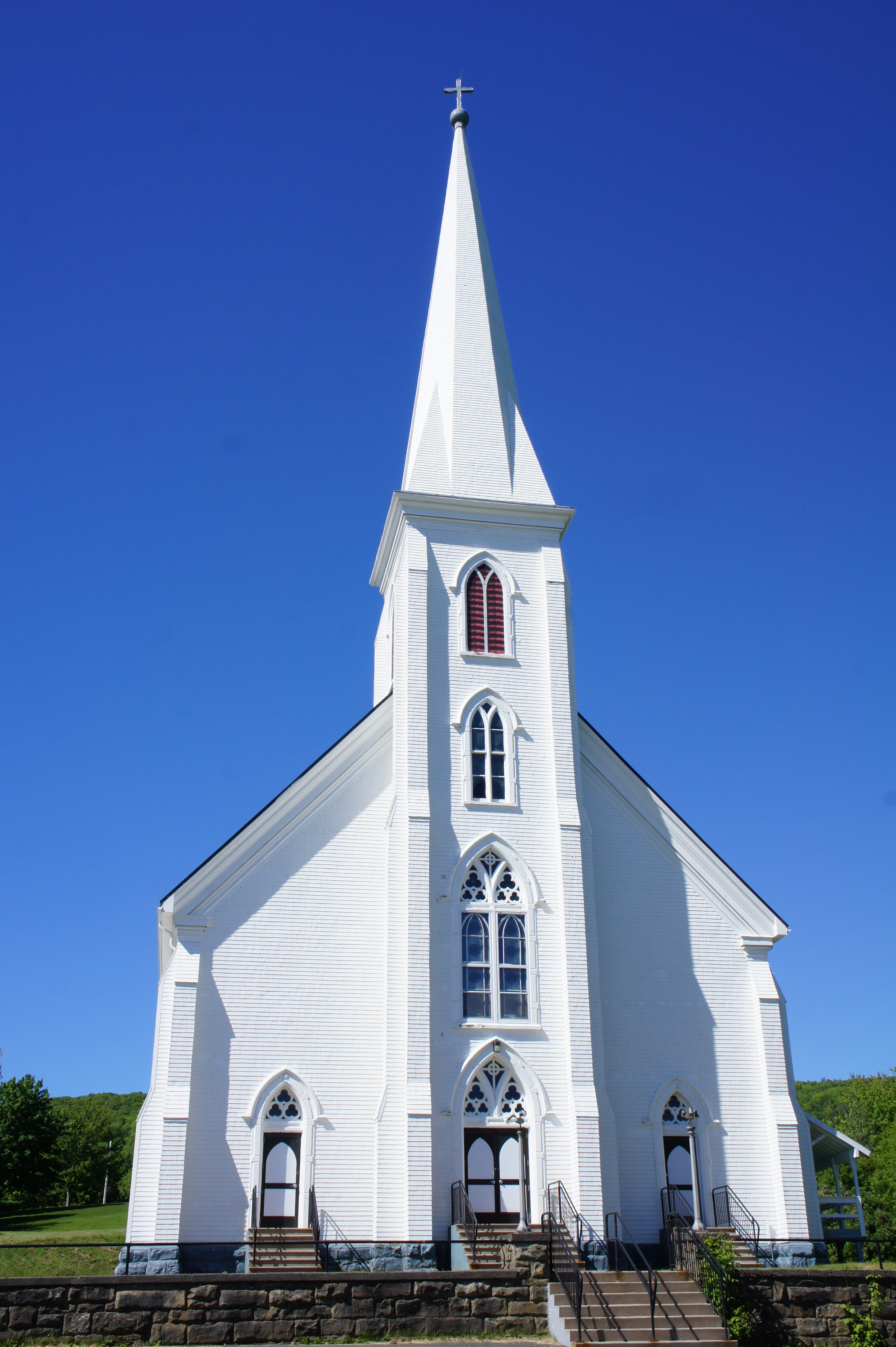 St. Mary's Roman Catholic Church,Mabou's church, Nova Scotia.